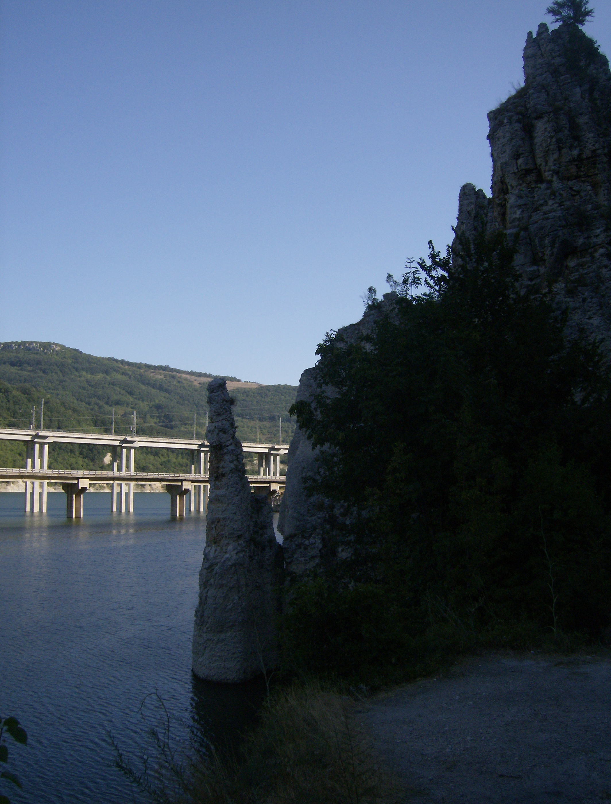 Conevo Dam